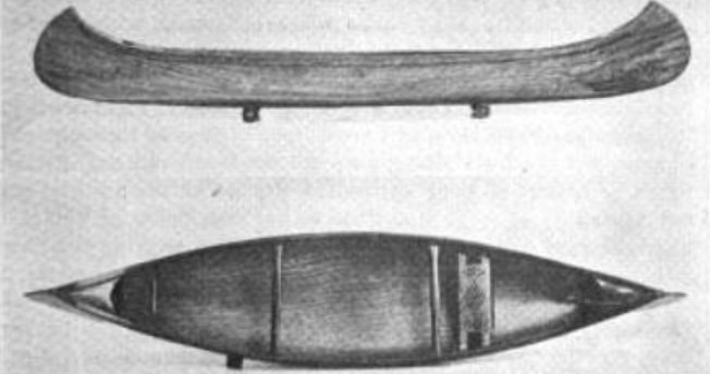 Haskell ribless canoe made from one piece of plywood